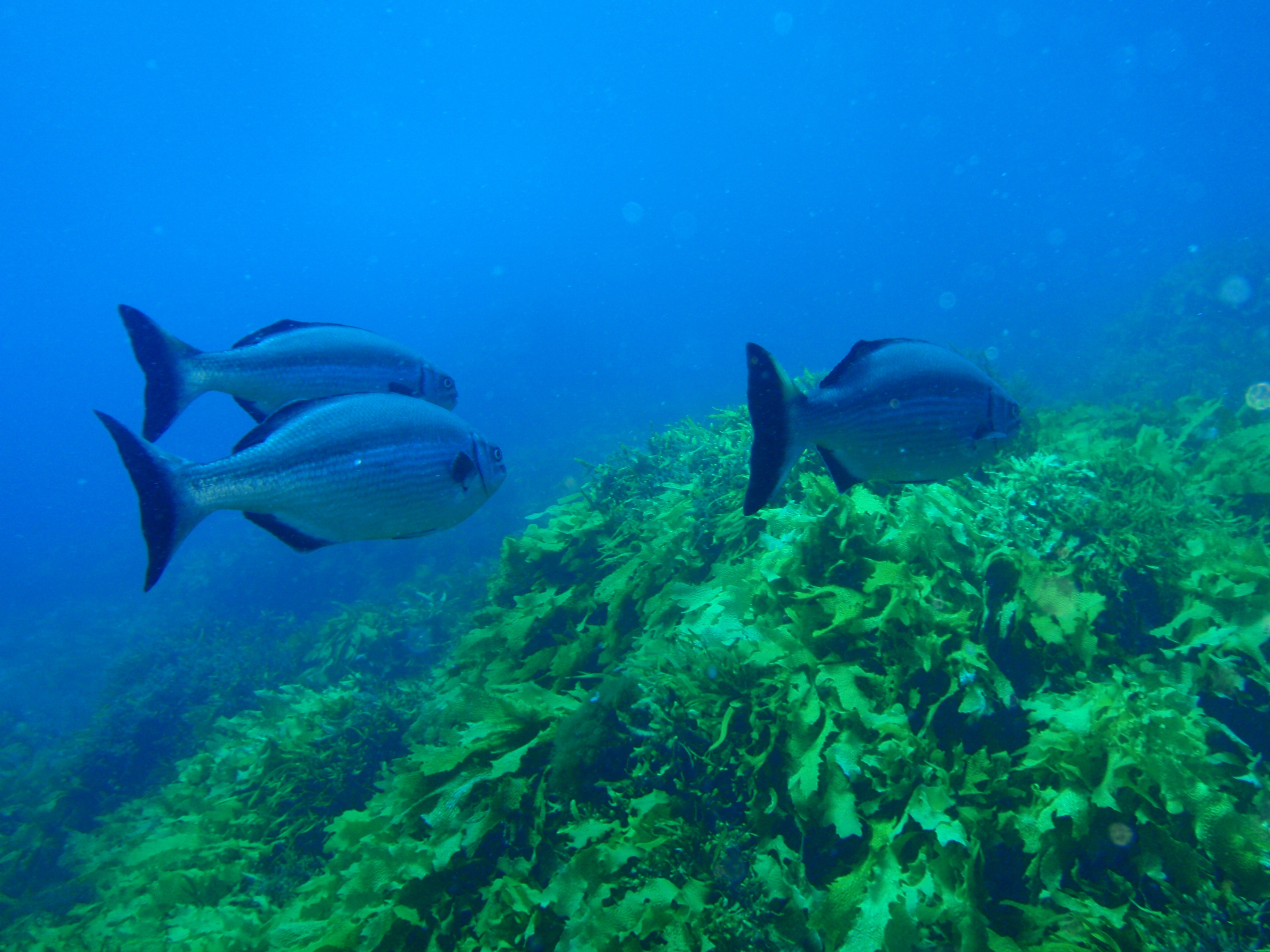 Buffalo bream Kyphosus sydneyanus at Seal cove, Breaksea Island, in King George Sound, Western Australia